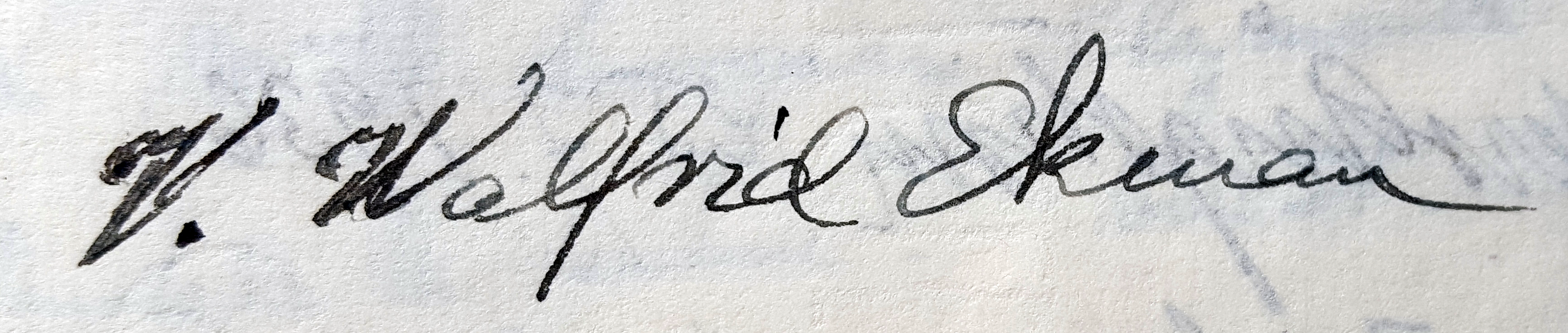 This is the signature of Vagn Walfried Ekman (swedish oceanographer). Guestbook entry from Bornoe, Jan-1935.